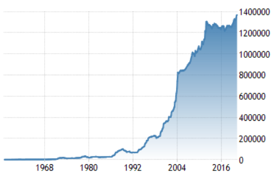 Foreign exchange reserves of Japan from the date of data compilation to the year 2020.